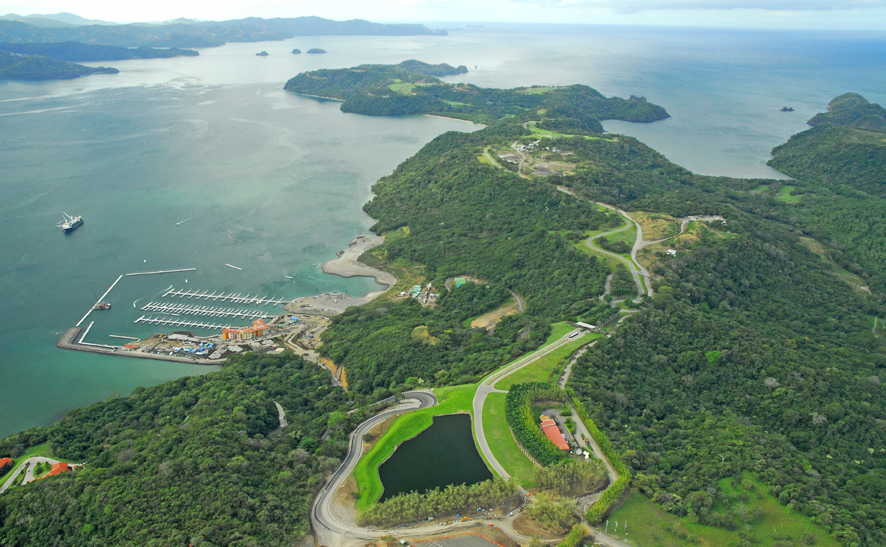 Marina Papagayo, Costa Rica. New mega and super yacht marina, northern Pacific coast. Guanascaste Costa Rica